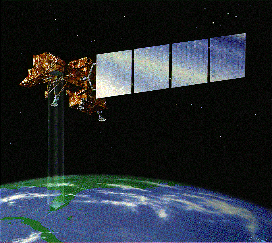 Landsat 7 on orbit.